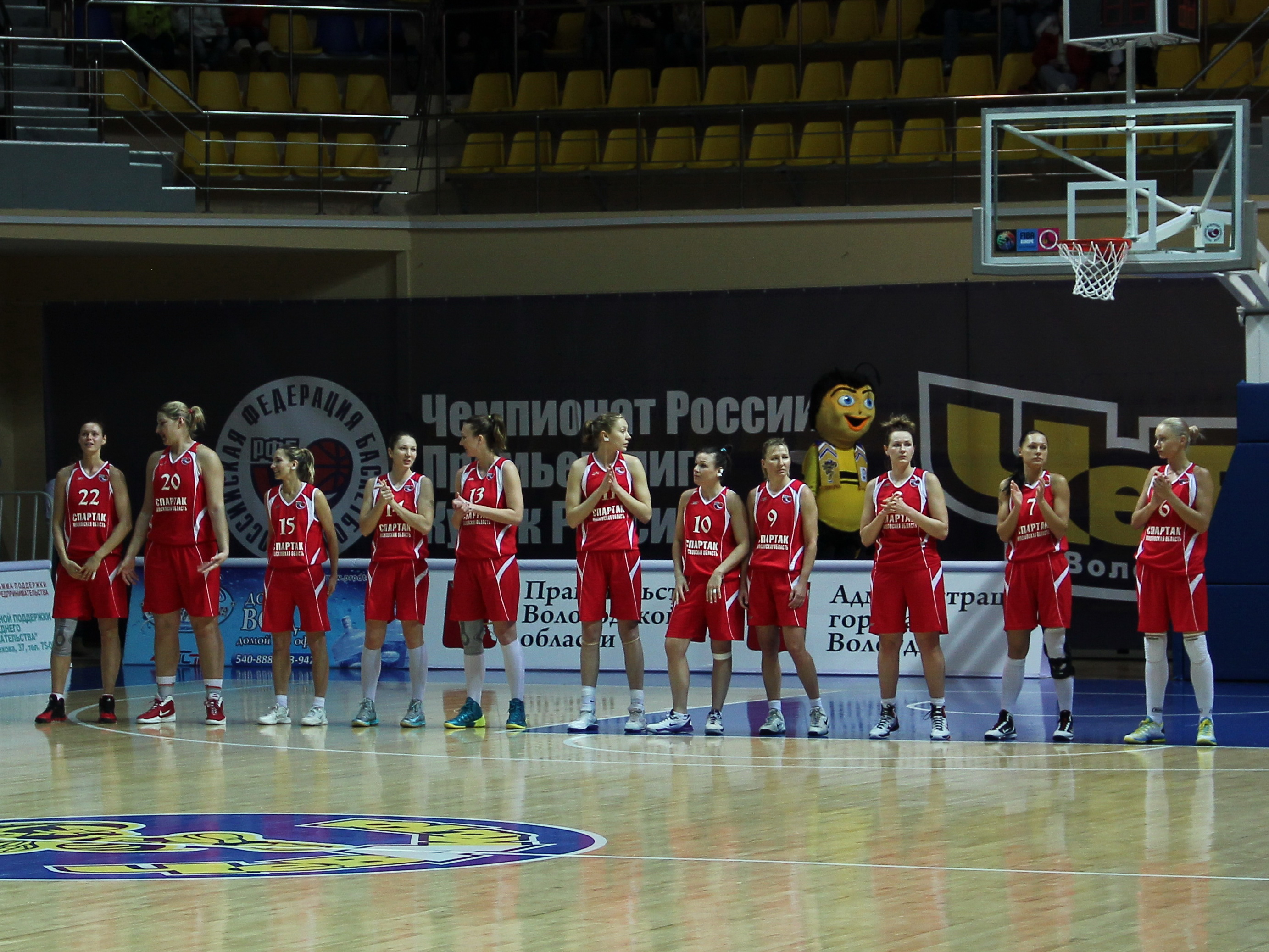 Russia, Women's basketball club «Spartak» (Noginsk)